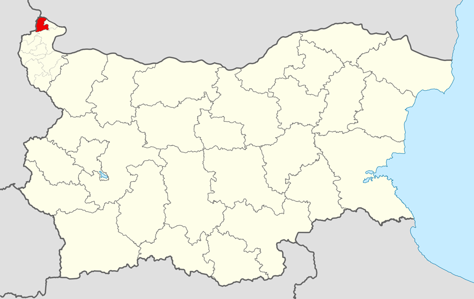 Location map of Bregovo Municipality within Bulgaria and Vidin Province. Equirectangular projection, N/S stretching 130 %. Geographic limits of the map: N: 44.4° N S: 41.1° N W: 22.1° E E: 28.9° E